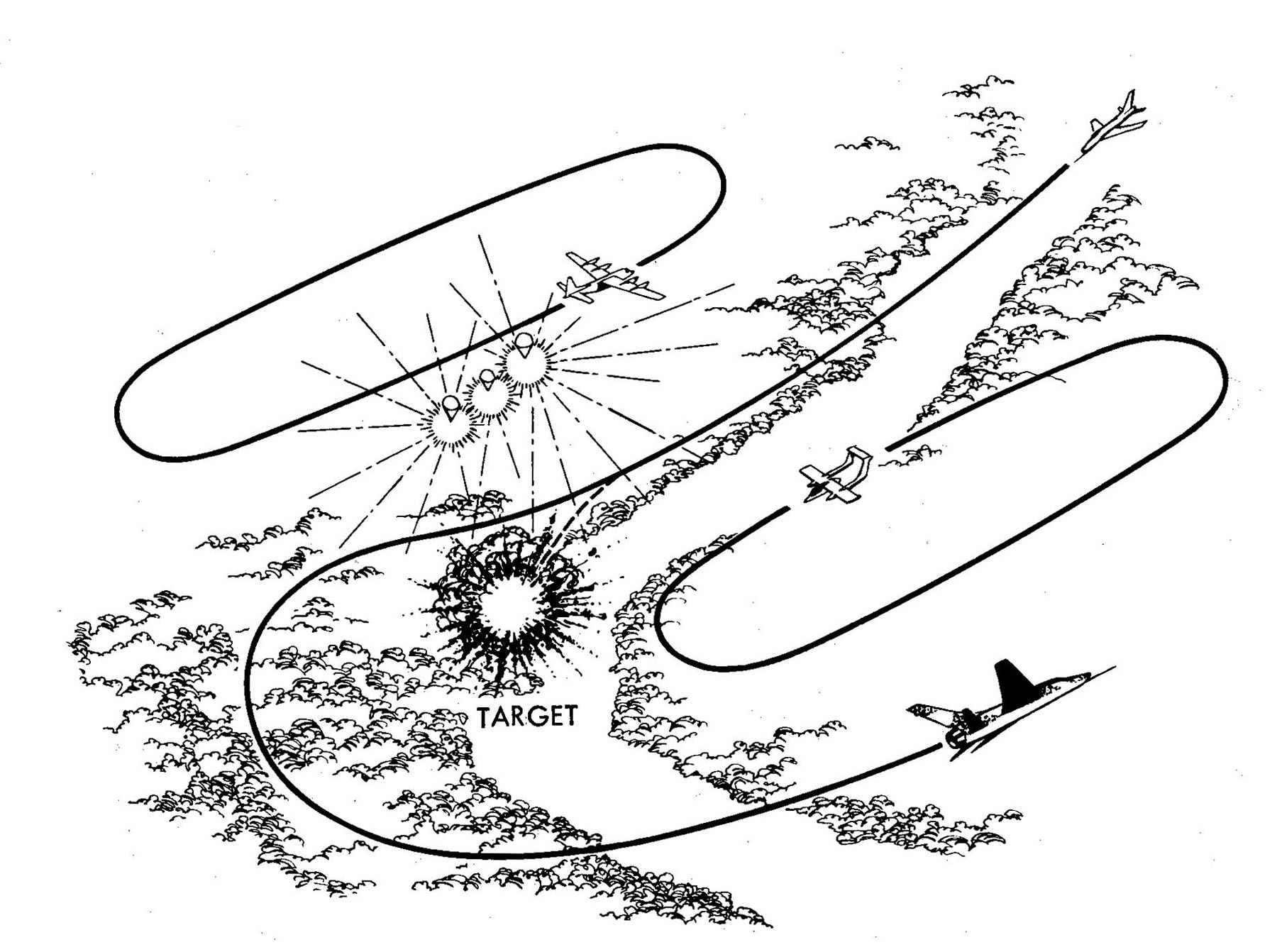 This drawing illustrates how a U.S. Air Force (1) flareship worked in concert with a (2) forward air controller (FAC) and (3) strike aircraft to provide close air support. By flying patterns to either side of the target, the flareship and FAC avoided each other and the strike aircraft.